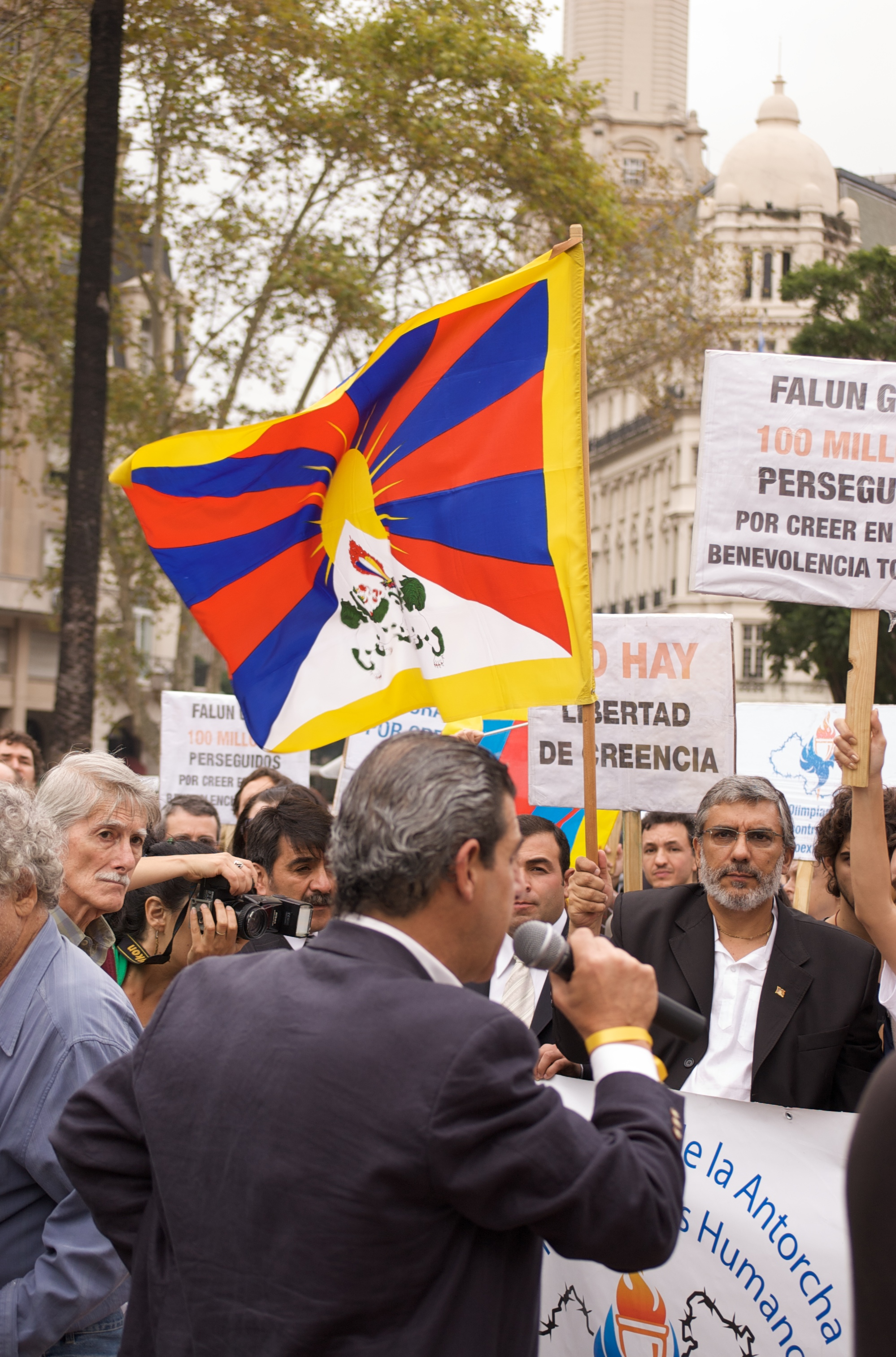 2008 Summer Olympics torch relay in Buenos Aires.